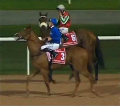 Thoroughbred horses African Story (3) and Candy Boy (background) at the 2015 Dubai World Cup.